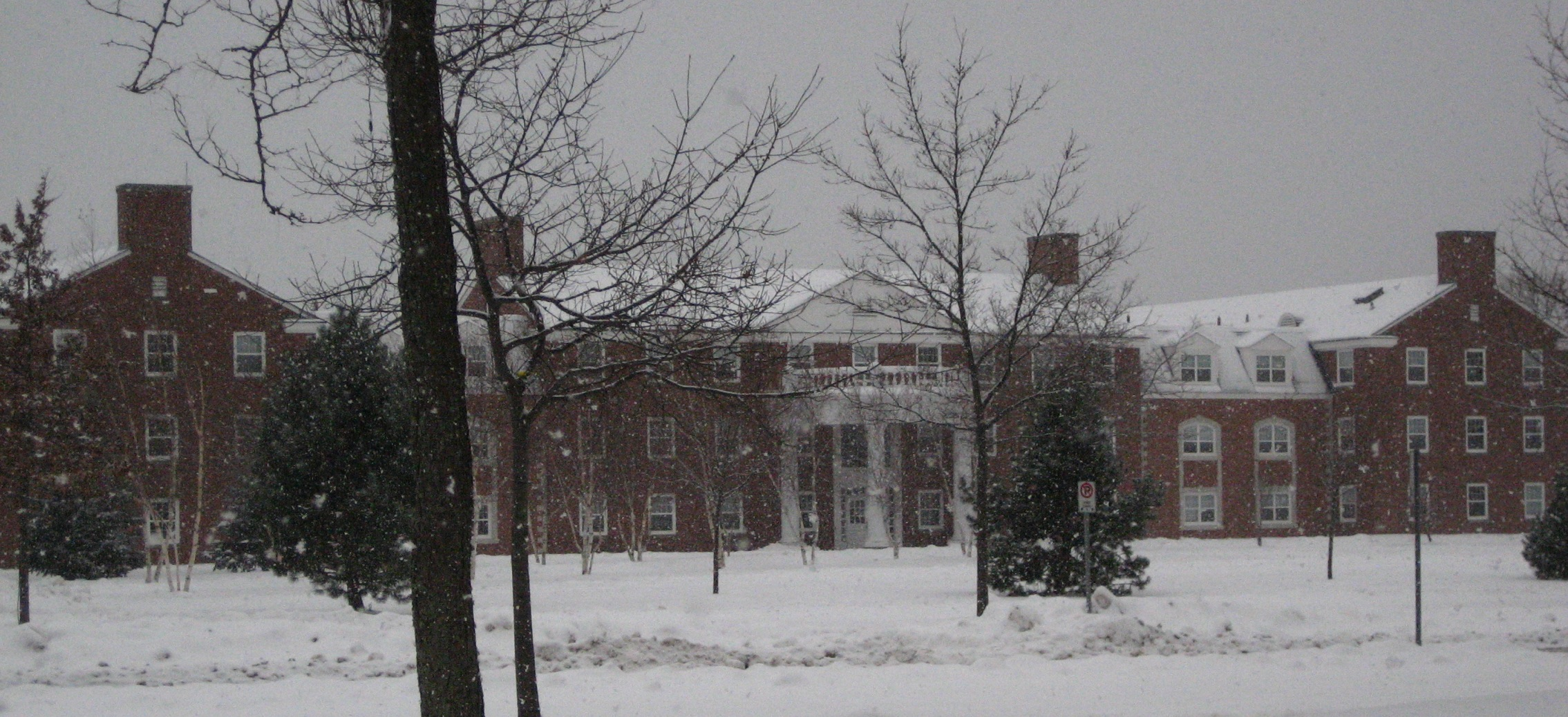 View of Bishops' Hall, St. FX, from near Mockler Hall